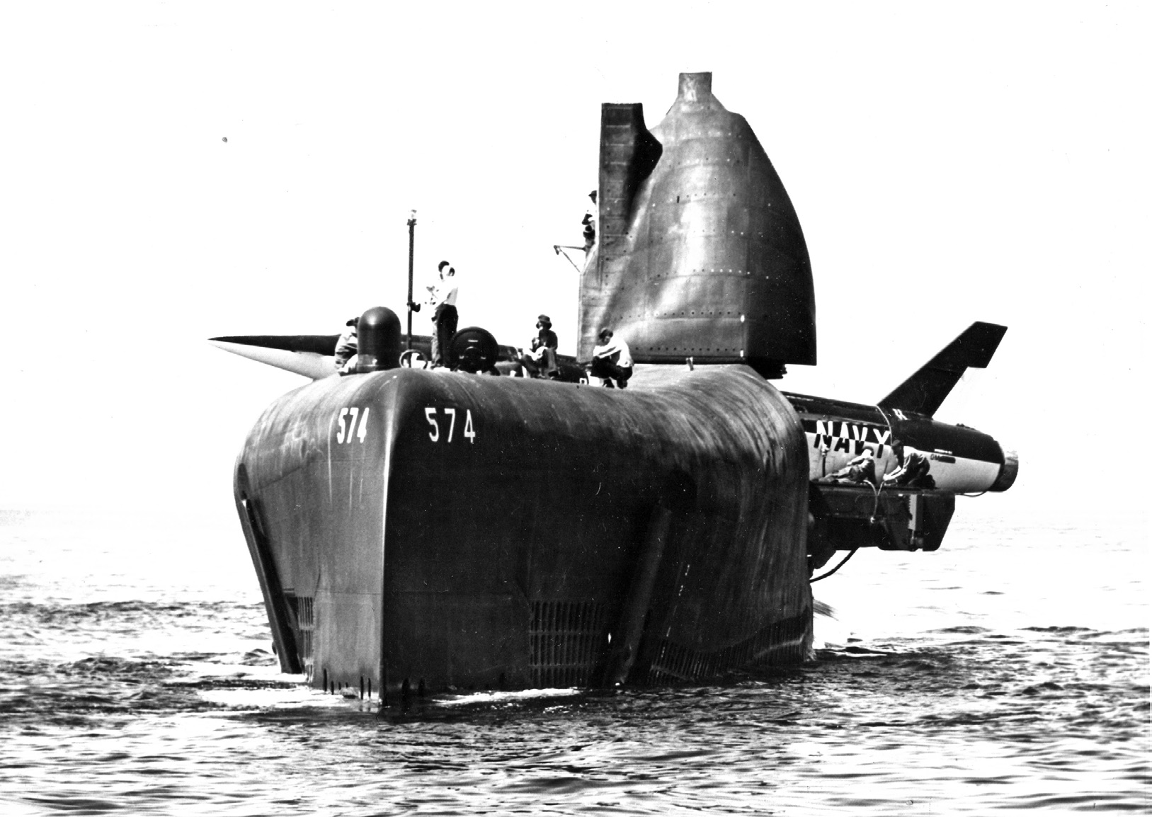 USS Growler (SSG-577) with Regulus 2 missle.